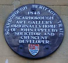 Plaque installed at the Scarborough Art Gallery as part of the Scarborough History Trail